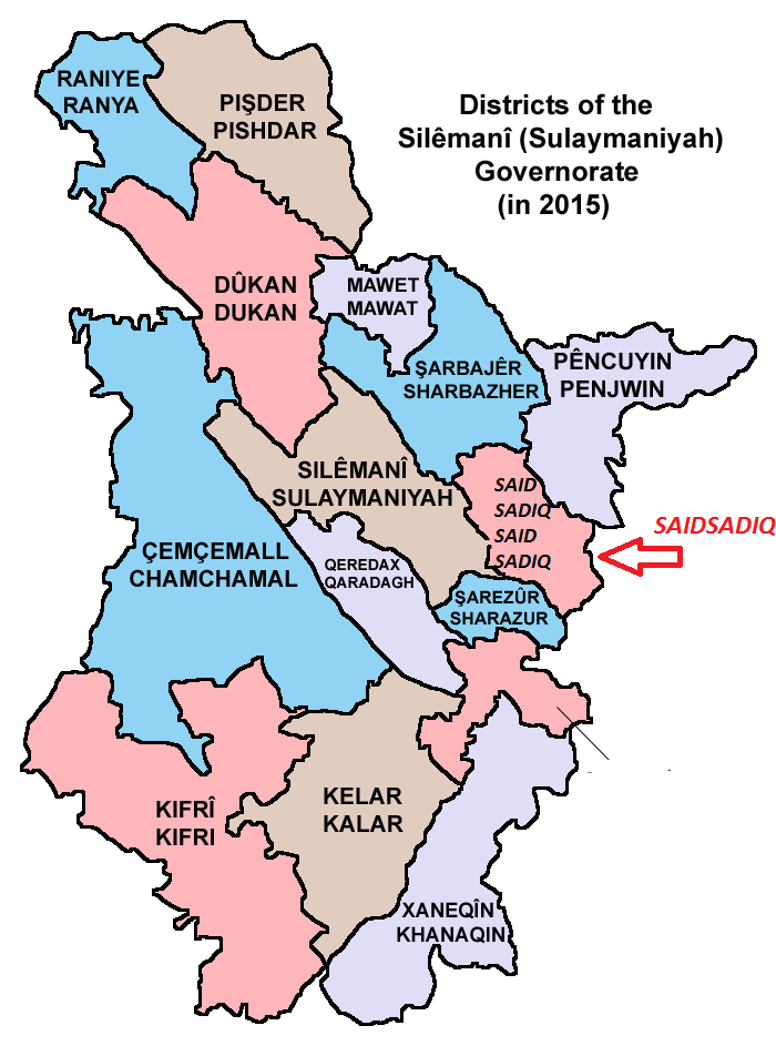 Saidsadiq District One of the districts of the province of Sulaymaniyah, the town of Sayed Sadiq away from the city of Sulaimaniya, a distance of 60 kilometers, there are more than a say in the naming of Sayed Sadiq city is said to be a man named Sidsadeg built this city, and also said that the naming of this city came from the name of Mount sincere in Iraqi Kurdistan. The number of people in Sidesadeg more than 100,000 and more than 25,000 house in 1991, the army of Saddam Hussein were sent to destroy more than 23,000 house and kill 6000. It is a cosmopolitan city